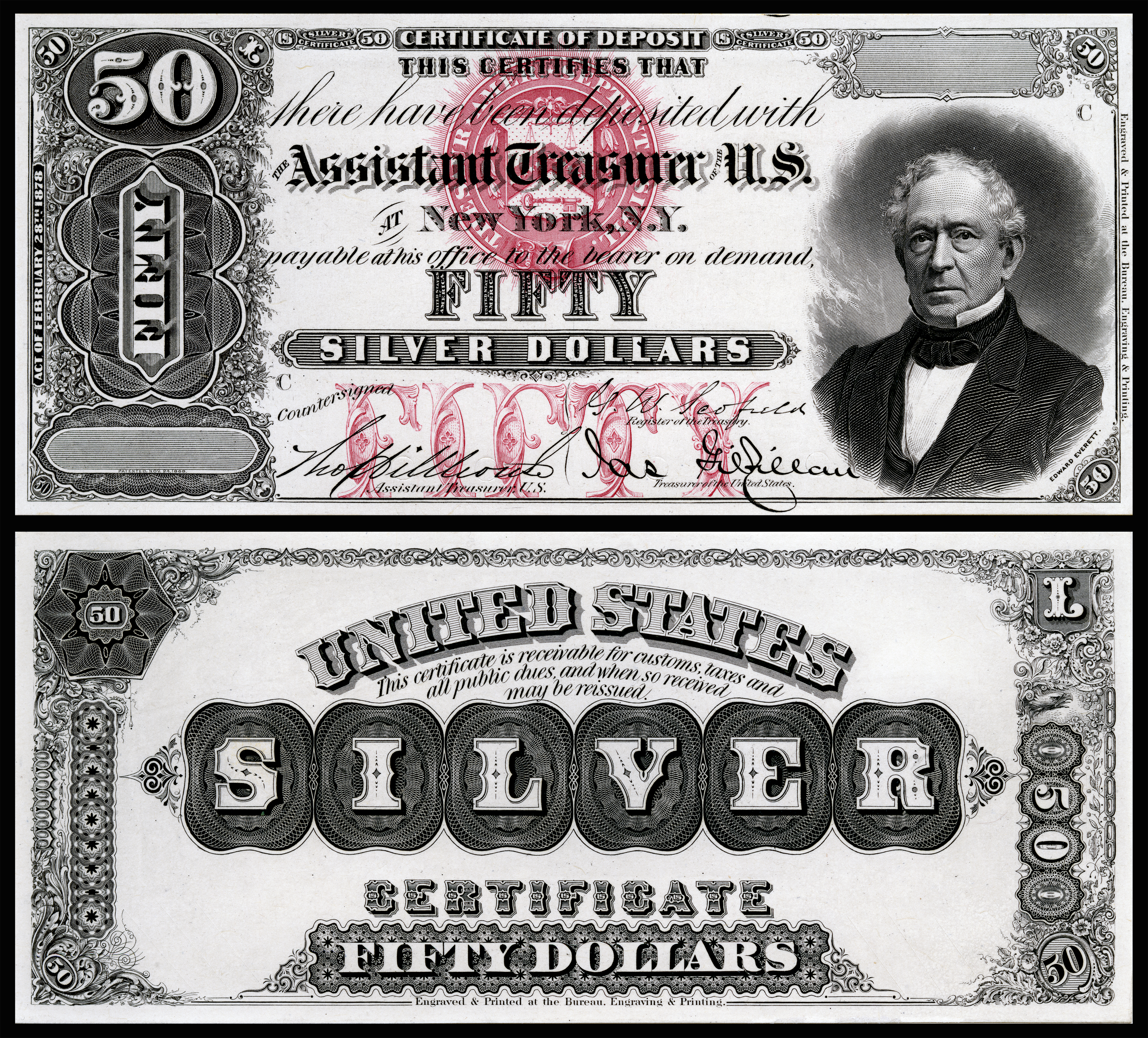 $50 Silver Certificate Proof, Series of 1878 (Fr. Ref#324), depicting Edward Everett. Engraved signatures of Scofield (Register of the Treasury) and Gilfillan (Treasurer of the United States). Countersigned by Thomas Hillhouse.This is a proof, the NNC does not possess an issued example of this type.